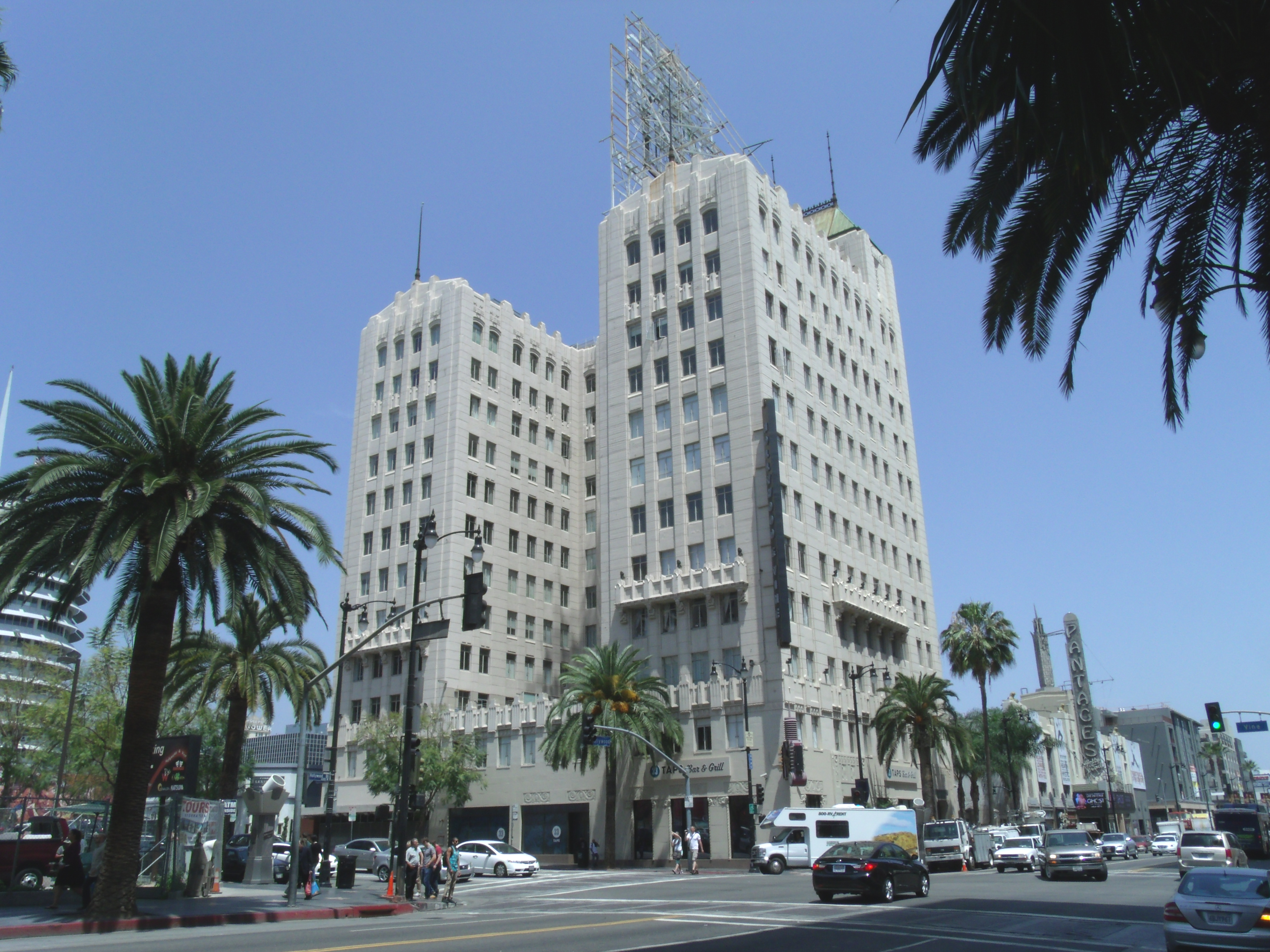 The Equitable Building is a Gothic Deco commercial tower which was built in 1929 and is located on the northeast corner of Hollywood and Vine Blvds in Hollywood, California.